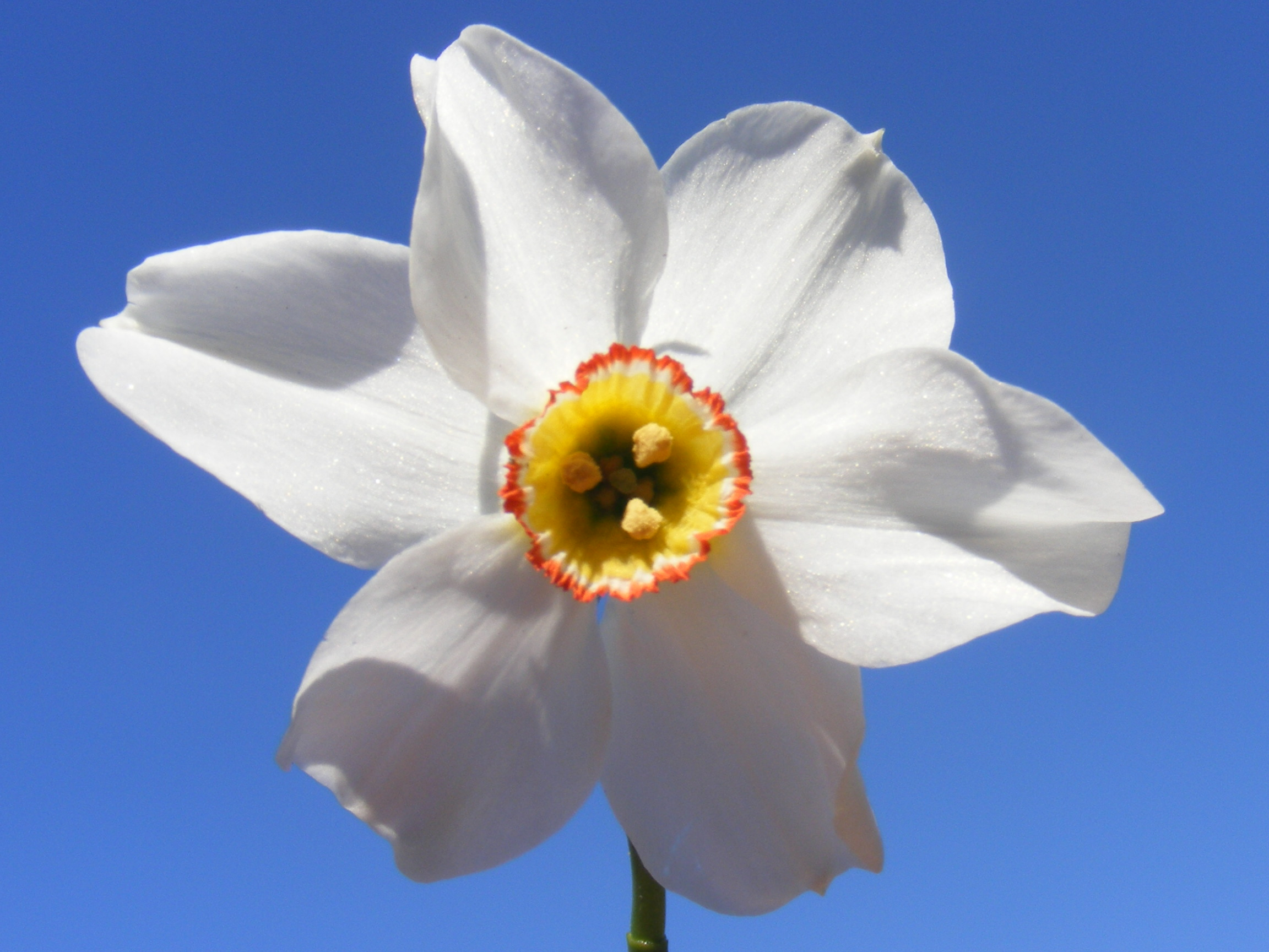 Narcissus